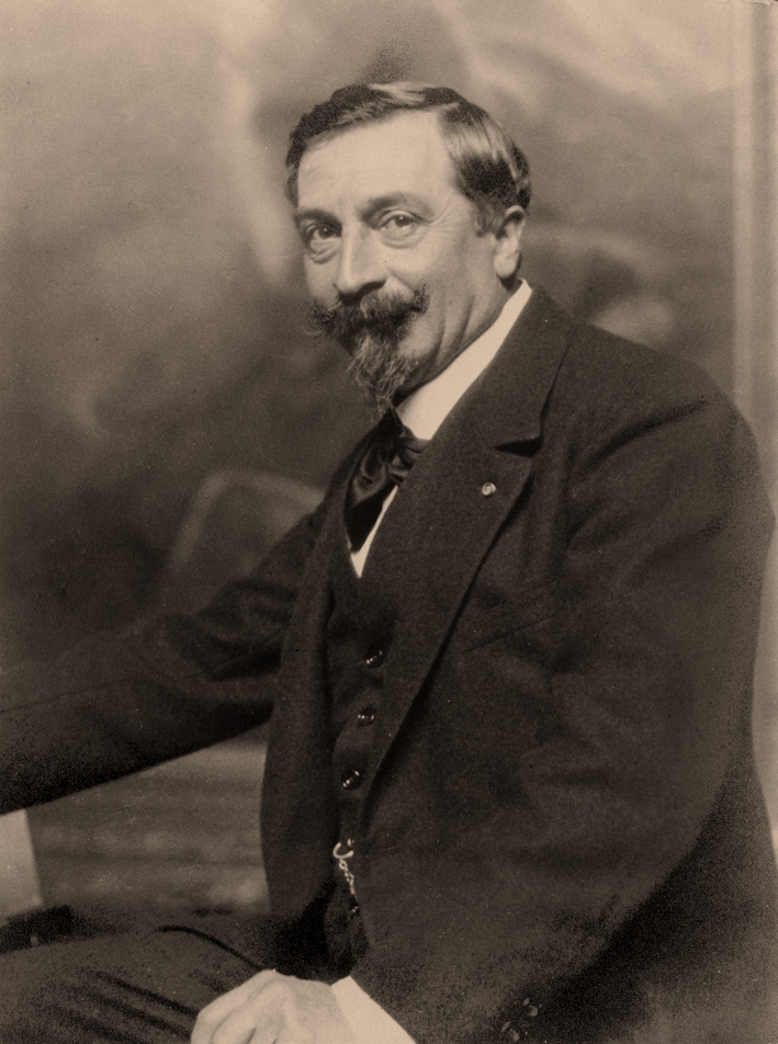 Painter Léon Printemps 53 year old